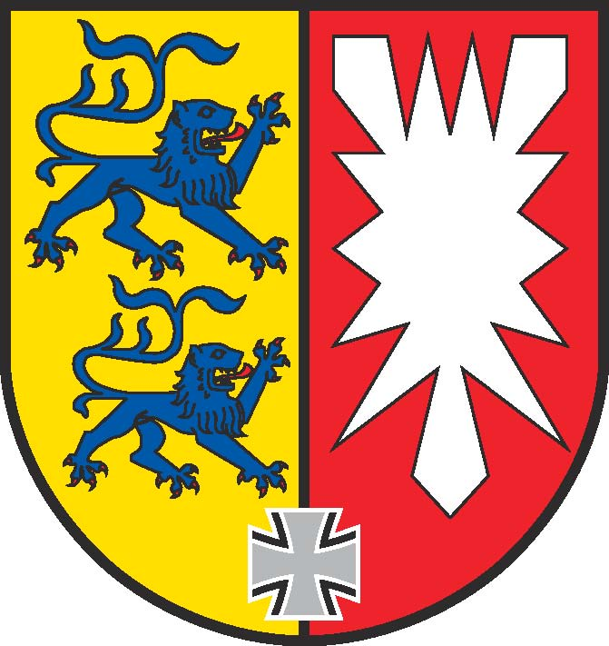 (Internal) coat of arms Landeskommando Schleswig-Holstein (LKdo Schleswig-Holstein) of the Bundeswehr (Armed Forces of the Federal Republic of Germany). → Remarks on naming and categorization scheme